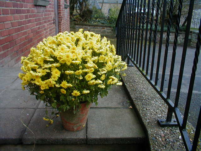 cultivated Chrysanthemum (probably Chrysanthemum indicum) in Wallonia in late October; the flower is commonly bought for to decorate tombs to the All Saints' Day, November, 1st.